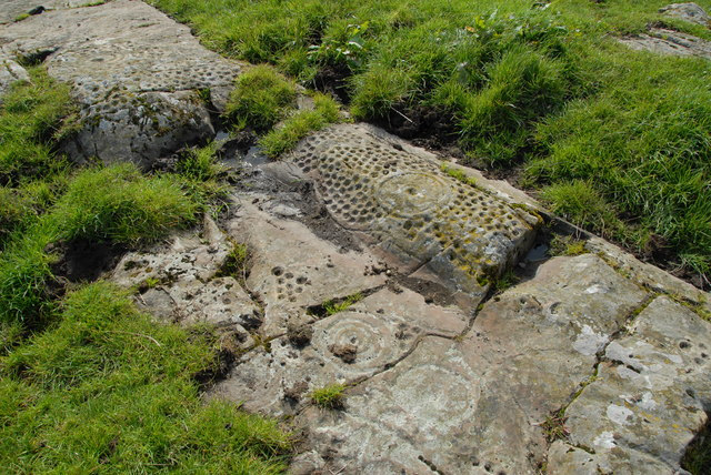 Cup and ring markings There are a number of sites near Kirkcudbright where these Megalithic markings are to be found. These are on farm land at High Banks farm